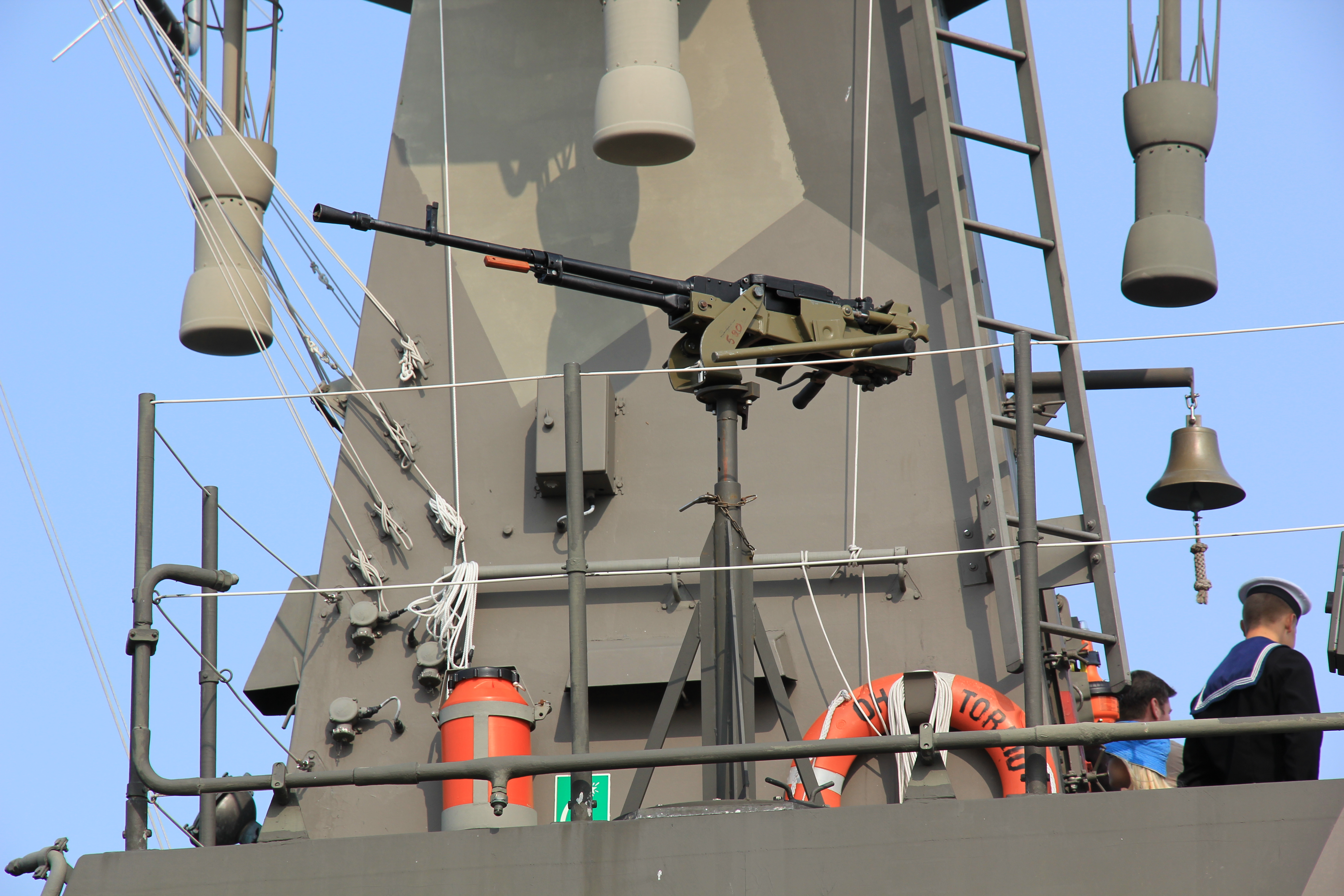 12.7 mm NSV machine gun of a Finnish missile boat Tornio in Kotka harbour during Finnish Navy 2013 anniversary.